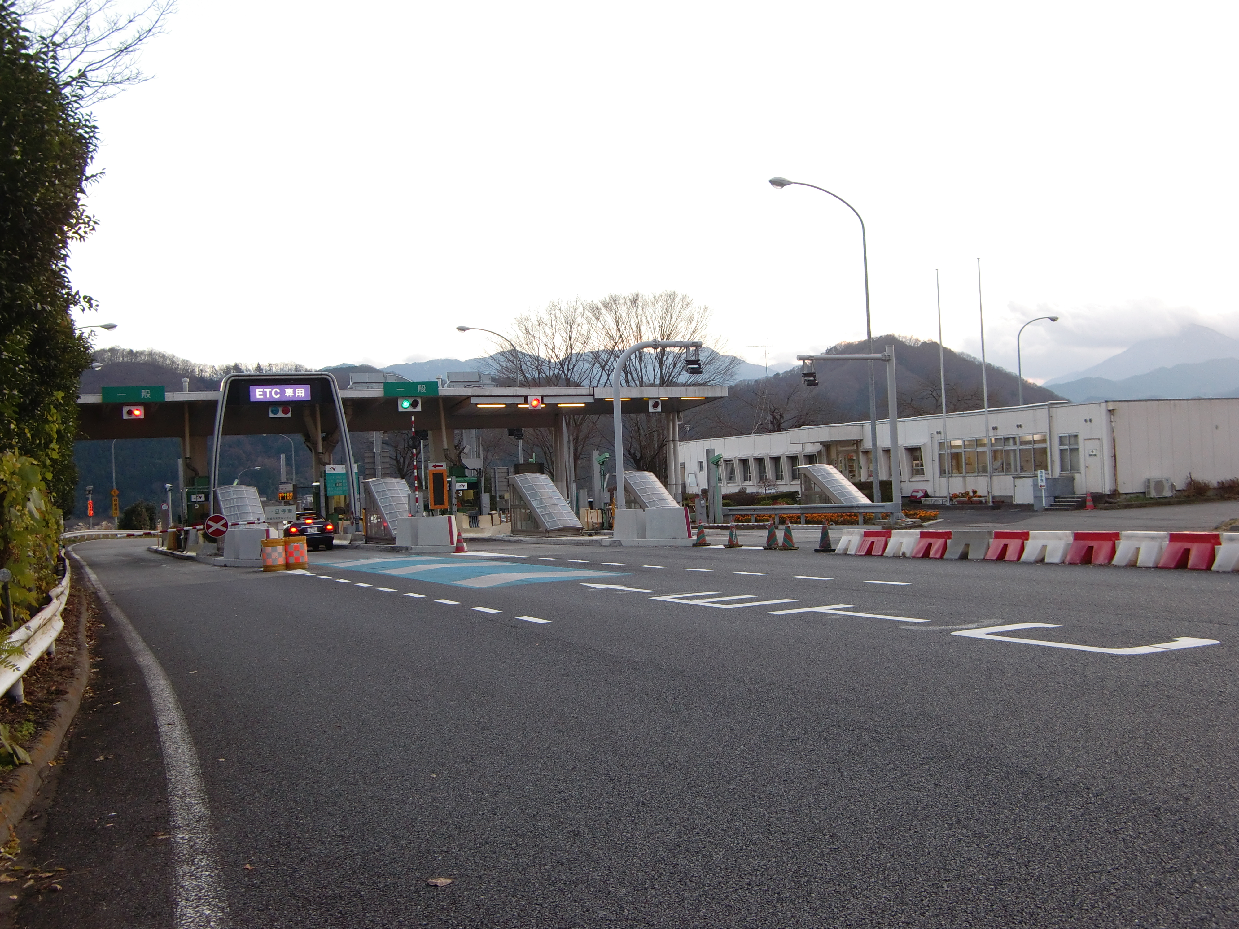 Sagamiko_Inter_Change